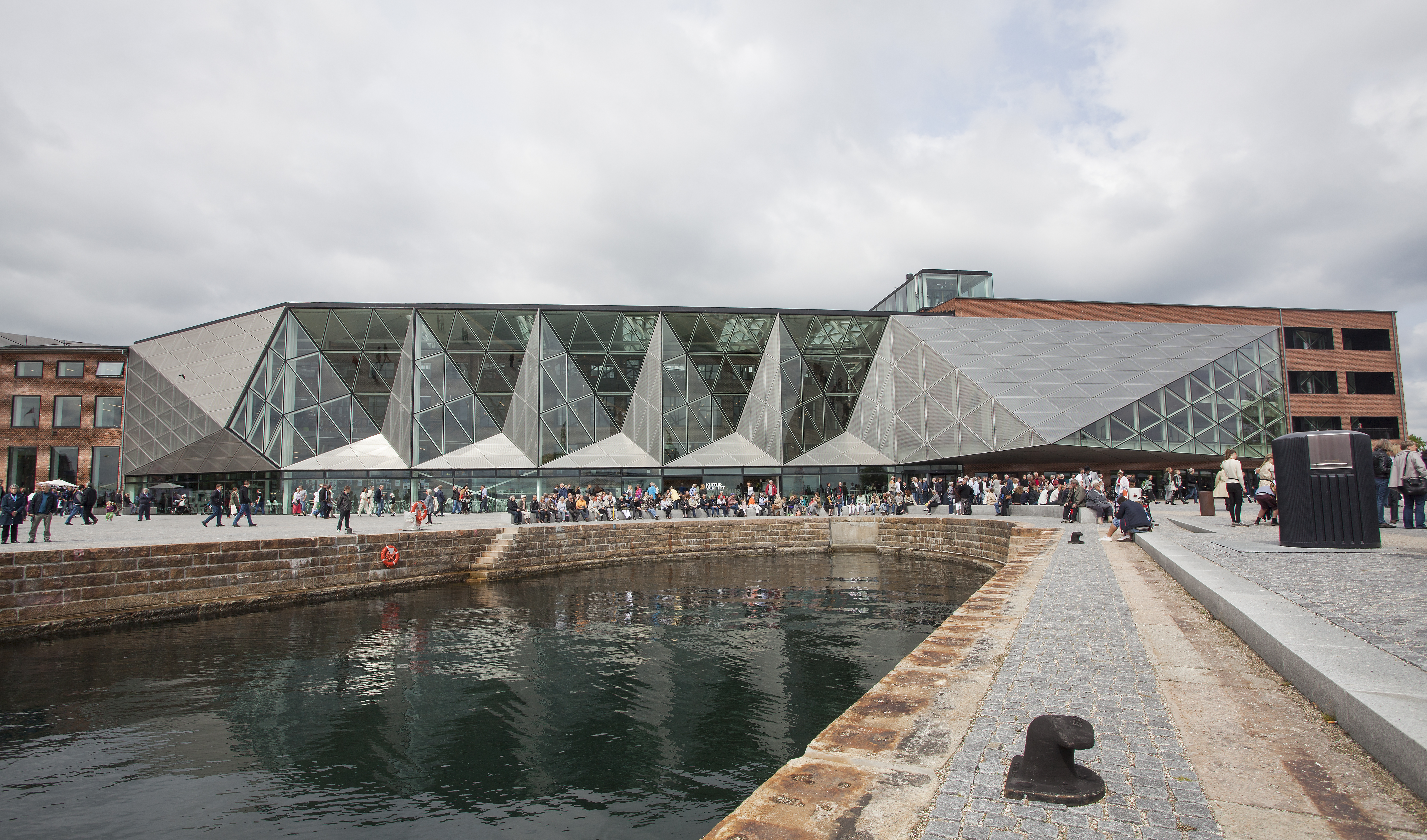 Kulturhavn kronborg / Culture Harbour Kronborg opened May 2013. Helsingør / Elsinore Kulturværftet / The Culture yard in the background.